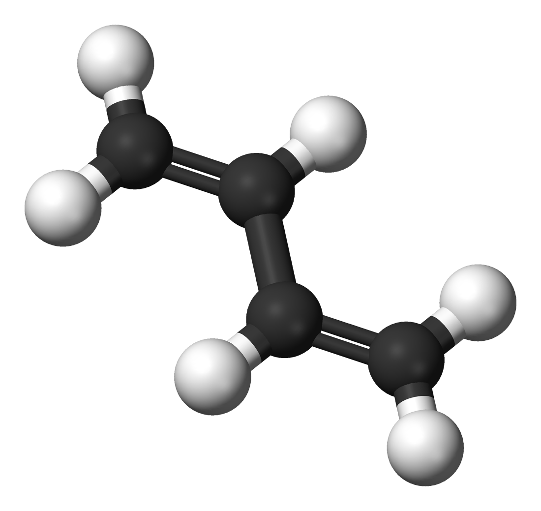 Structure of trans-butadiene